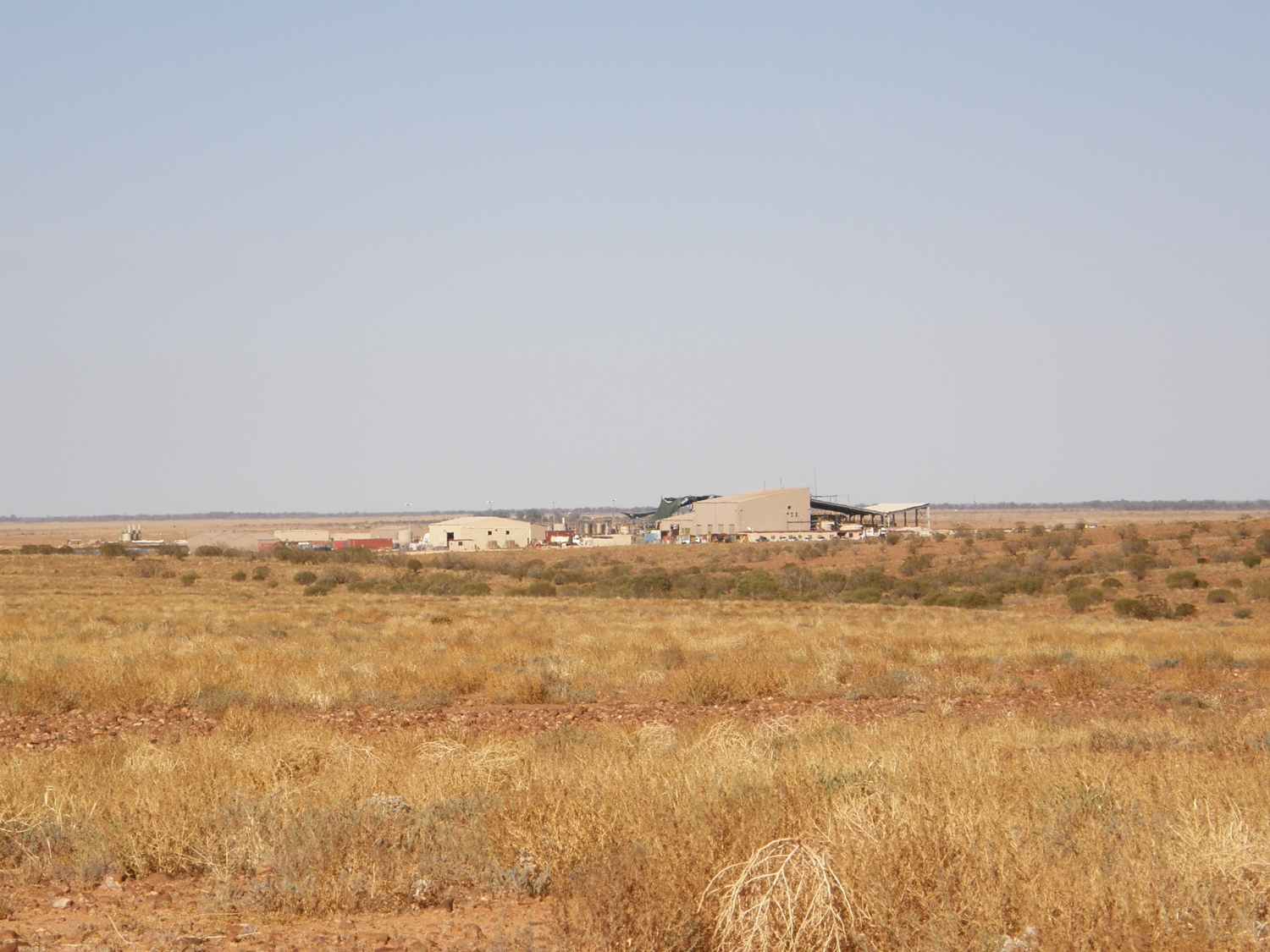 Beverley Uranium Mine, Frome Basin, South Australia: Processing plant extracting the uranium from the leach solution.